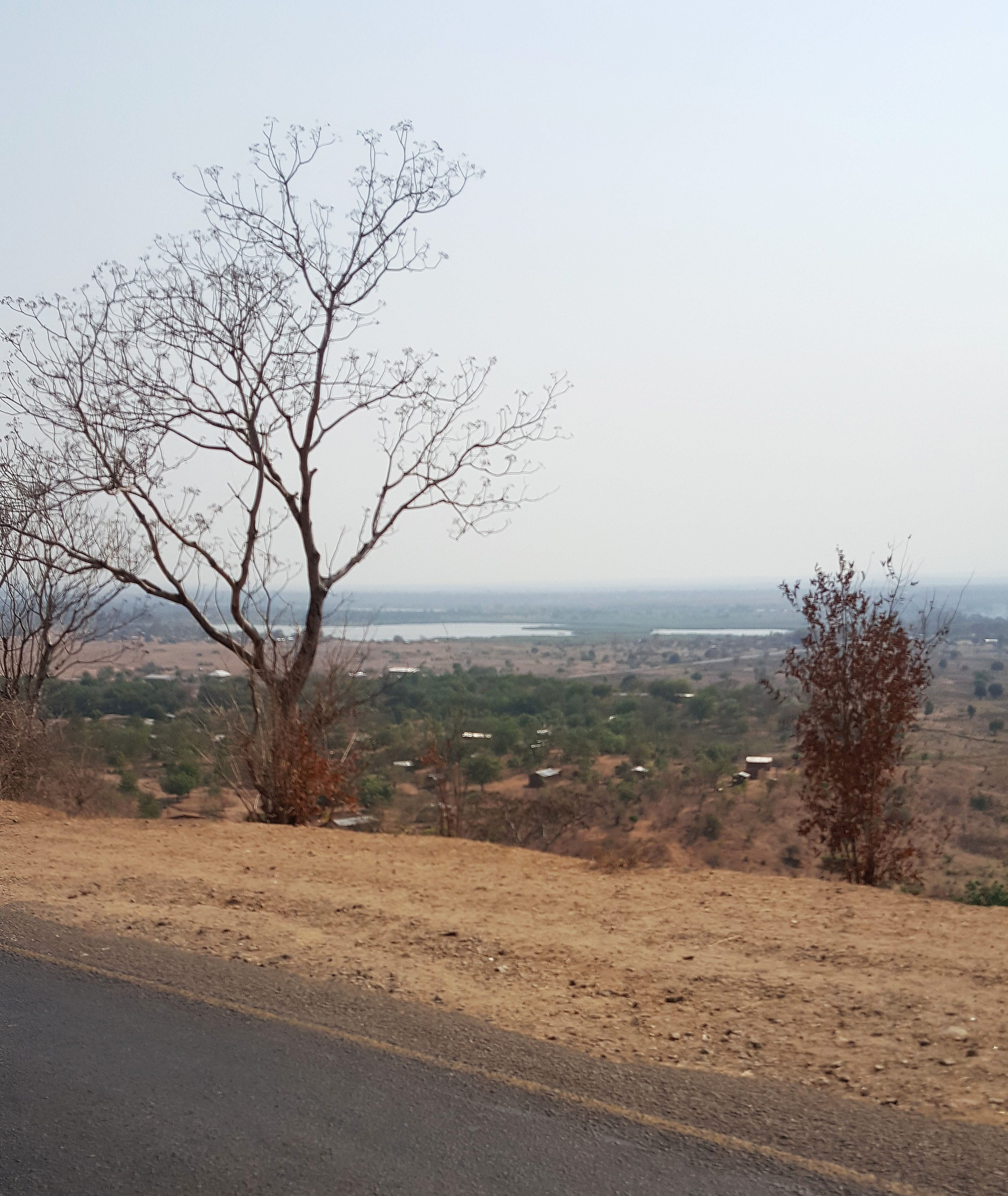 View of shire river chikwawa This is an image of "African people at work" from Malawi